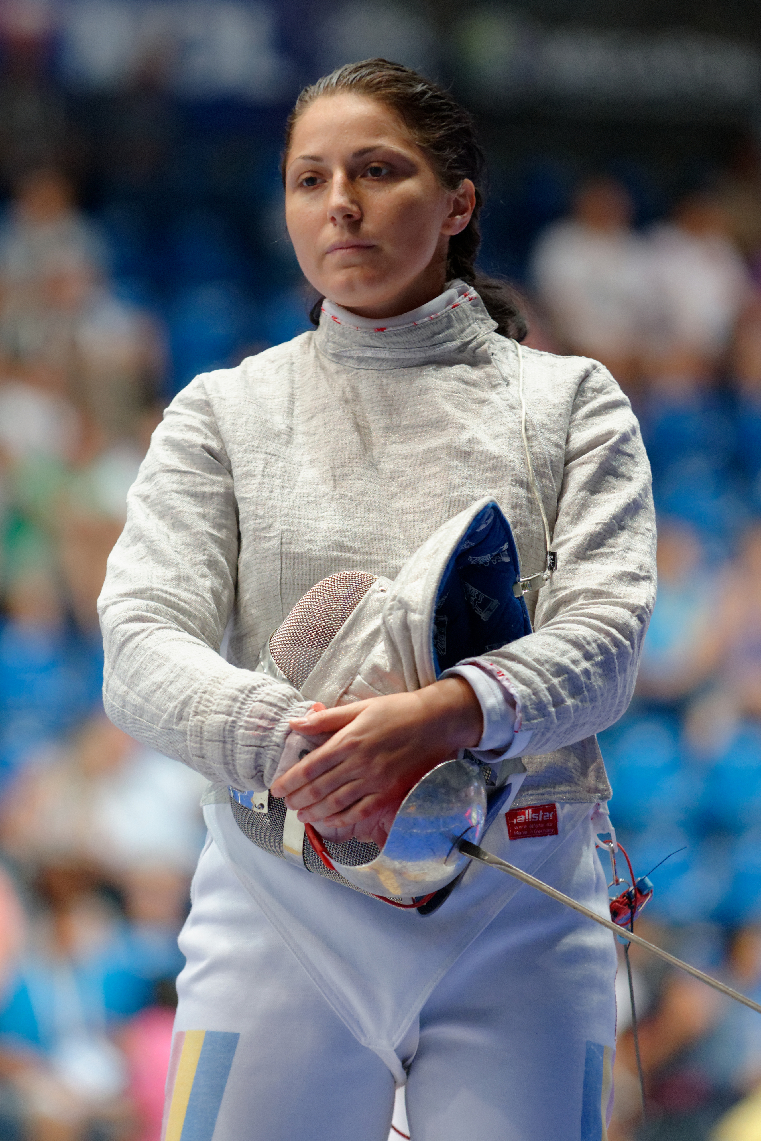 Romania's Bianca Pascu during her T64 bout against Julieta Toledo of Mexico in the women's sabre event of the 2013 World Fencing Championships 2013 at Syma Hall in Budapest on 9 August 2013.